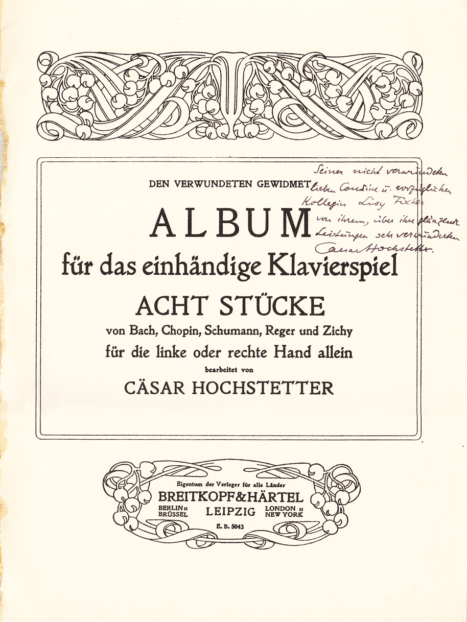 Music score by Caesar Hochstetter inscribed to his cousin Lisy Fischer.